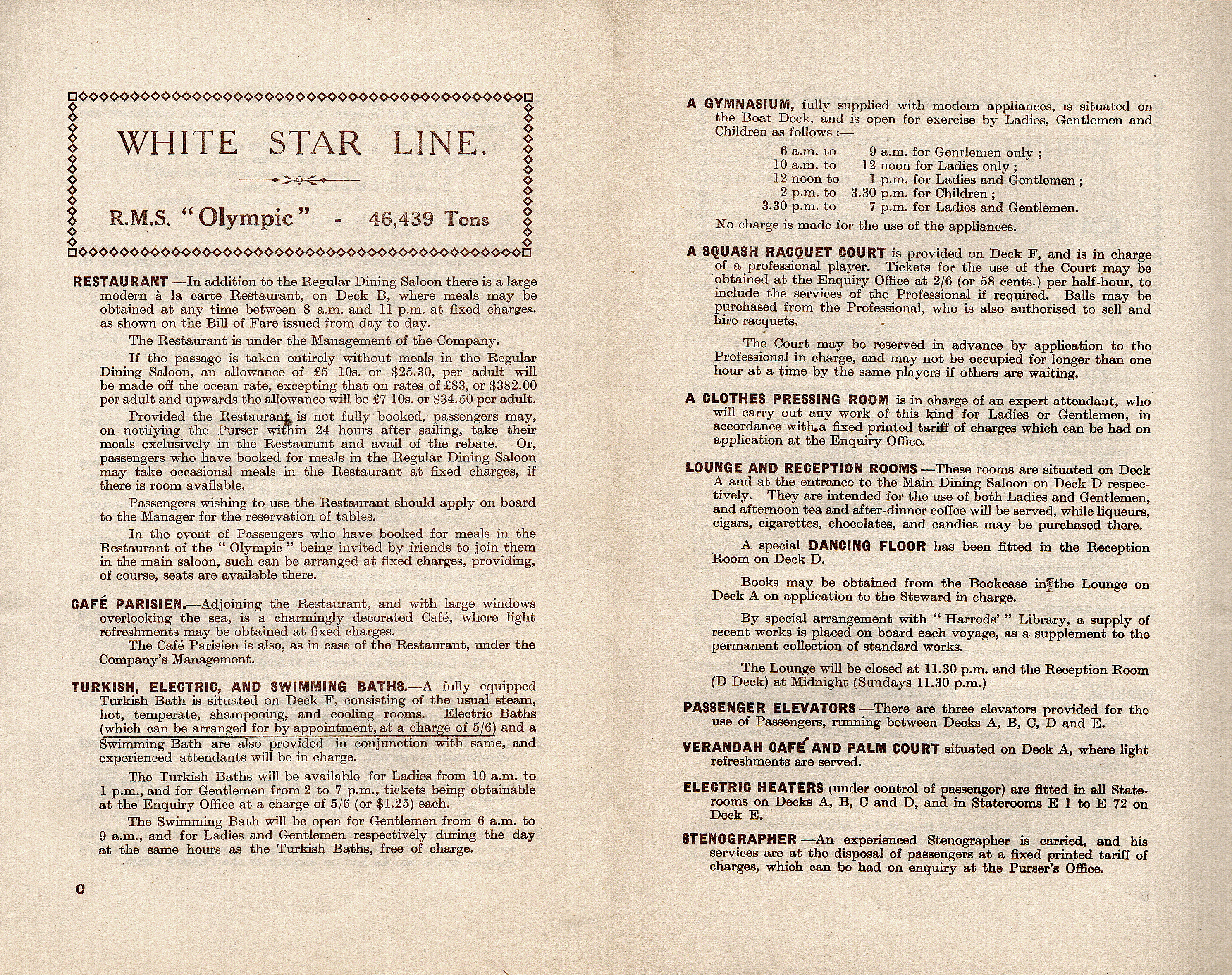 List of on board facilities from the Passenger List (First Class) for the White Star Lines steamer RMS "Olympic" for April 28, 1923 voyage from New York to Southampton.